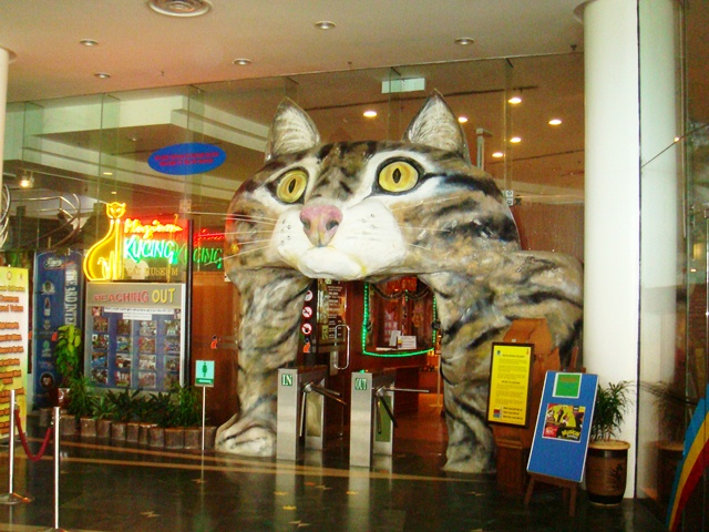 Main entrance to Kuching Cat Museum, Sarawam in 2011. The museum is situated inside the headquarter of Kuching North City Hall.